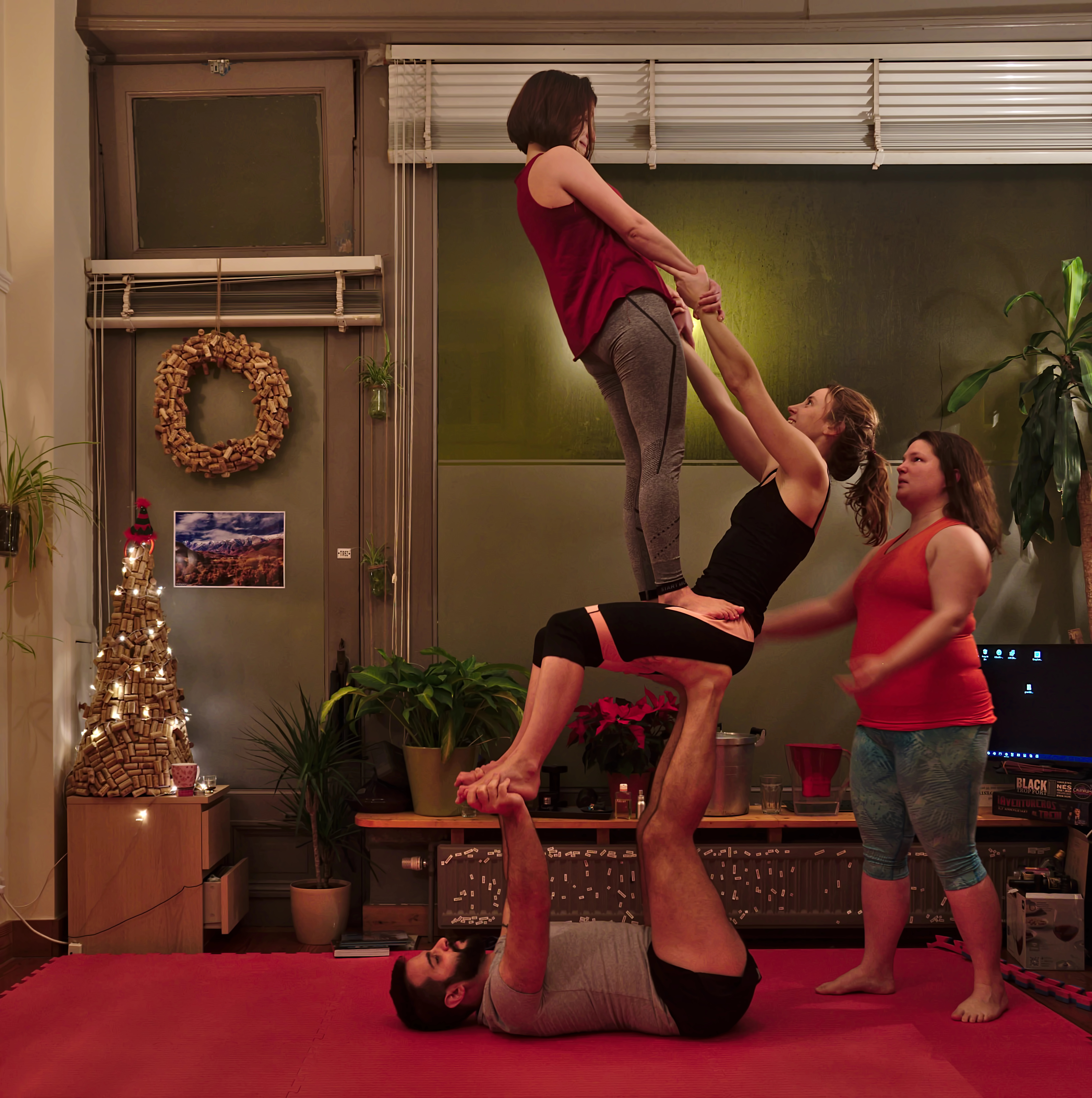 Acro standing lap dance variation (DSCF2432, denoised using bm3d-gpu)